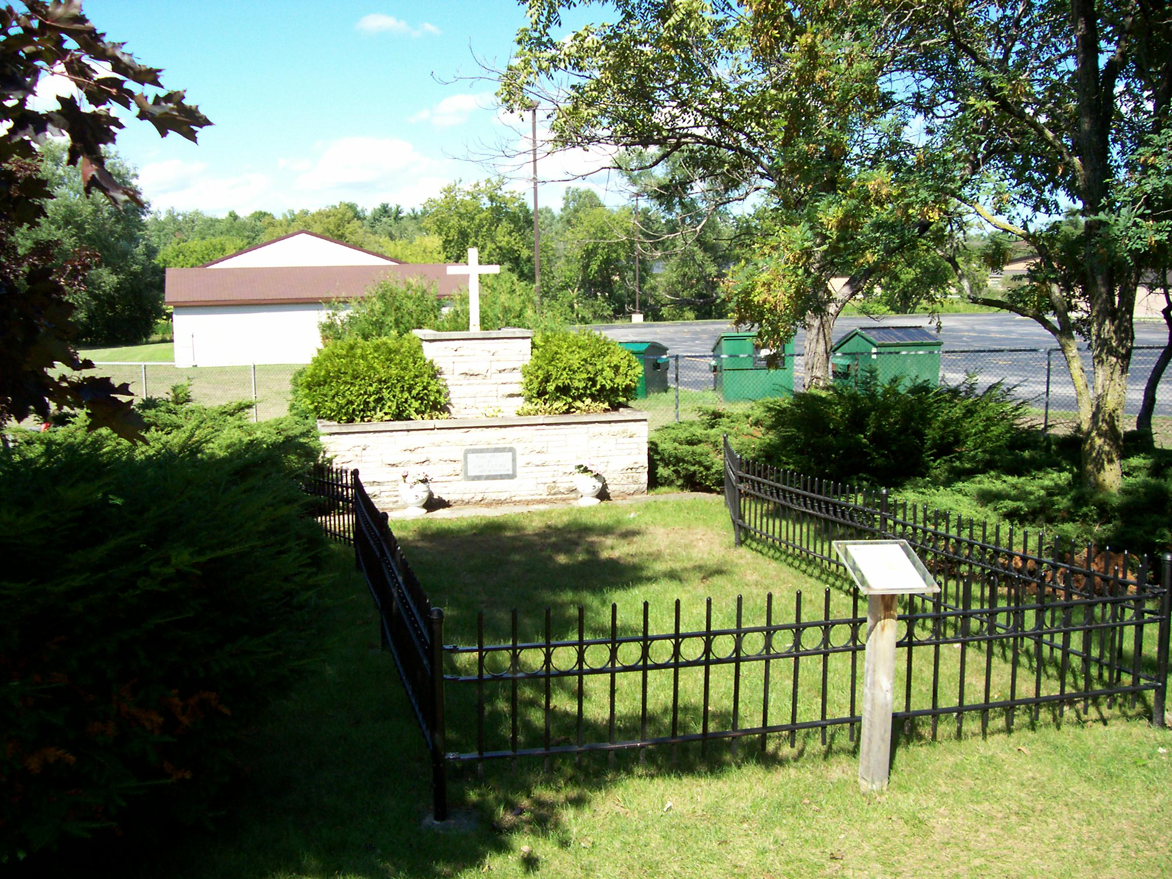 The marker and surrounding area for the mass grave of victims of the Peshtigo Fire at the Peshtigo Fire Cemetery adjacent to the Peshtigo Fire Museum in Peshtigo, Wisconsin, USA.